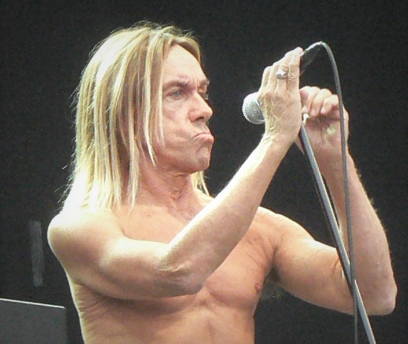 Iggy Pop. Sziget Festival, on the 15th of August, 2006. Cropped from